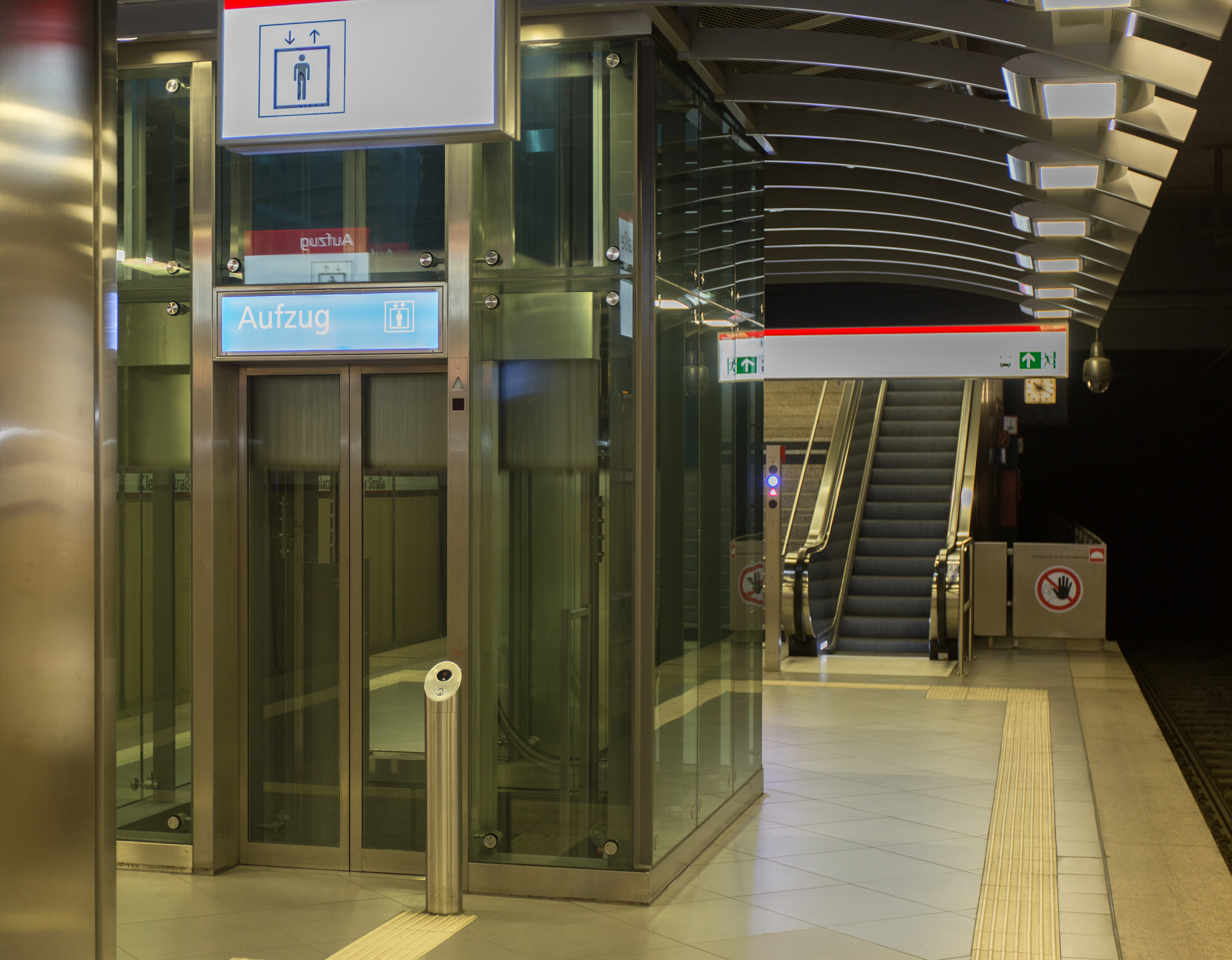 Neuer Fahrstuhl